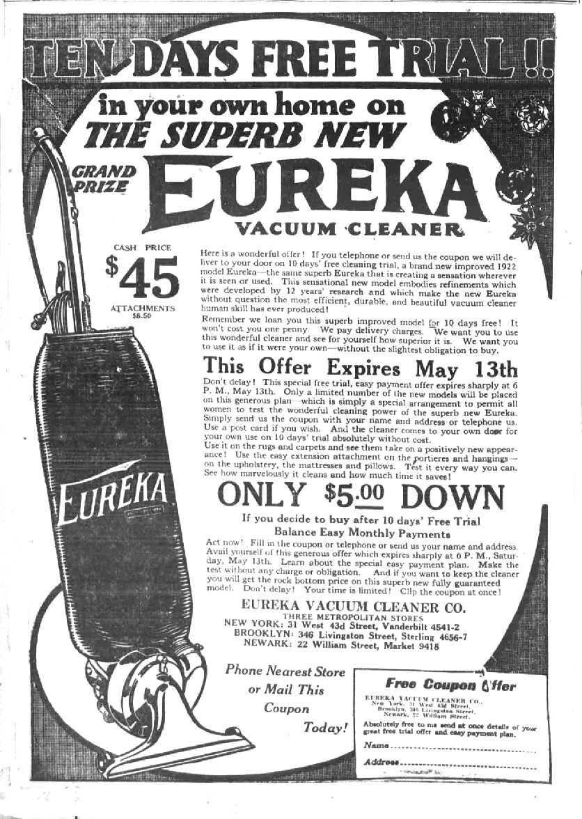 Newspaper ad for Eureka vacuums, from 1922. Offering a 10-day free home trial.